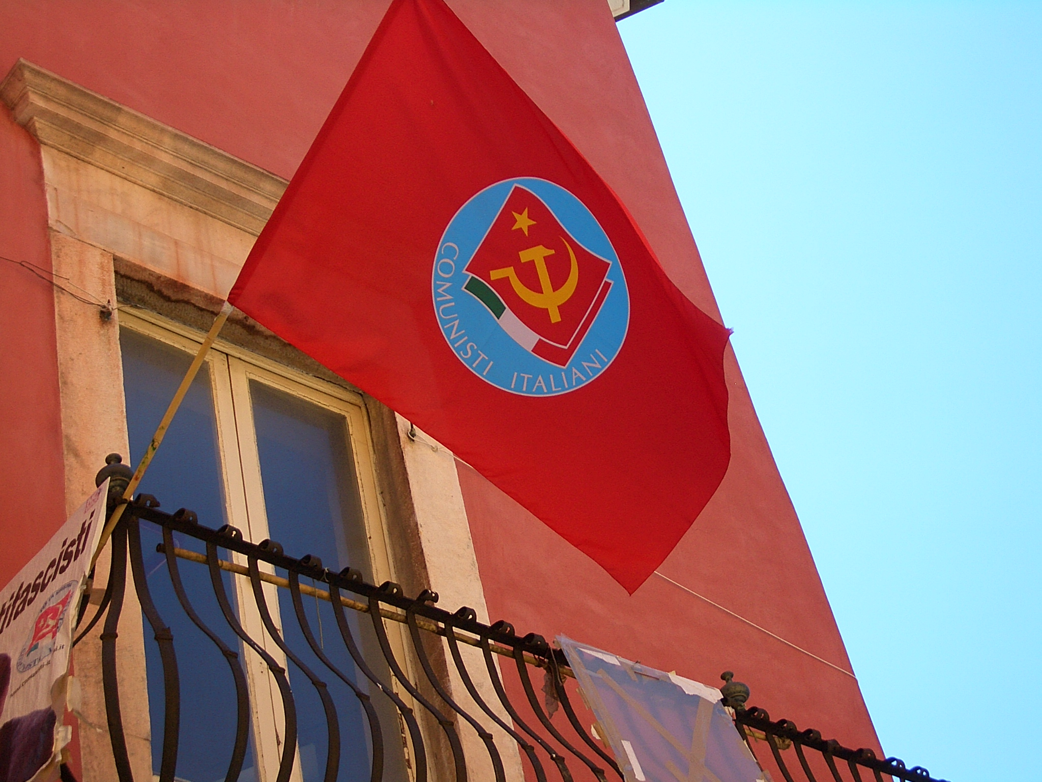 In Carrara's central square. The flag of (an) Italian Communist Party is flown its office